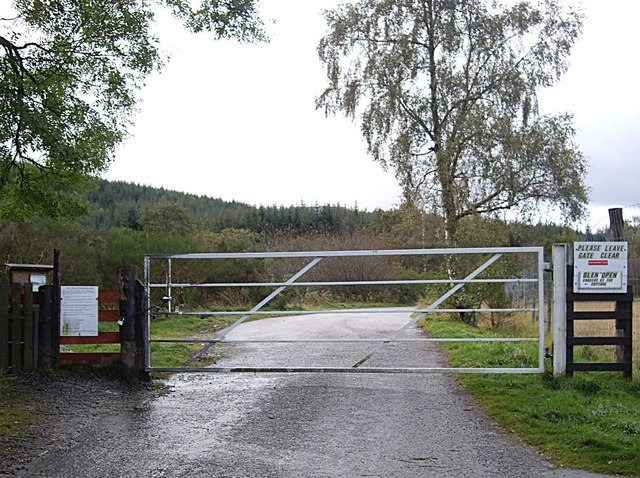 Gated entrance to Glen Strathfarrar, near to Inchmore, Highland, Great Britain. At Inchmore.